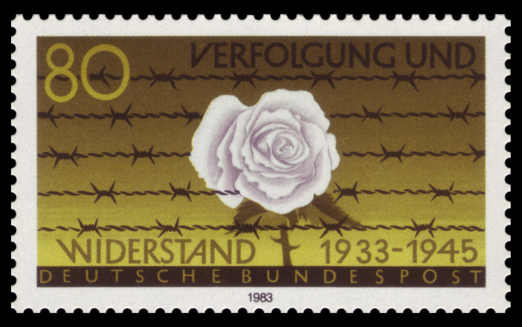 persecution and resistance 1933—1945